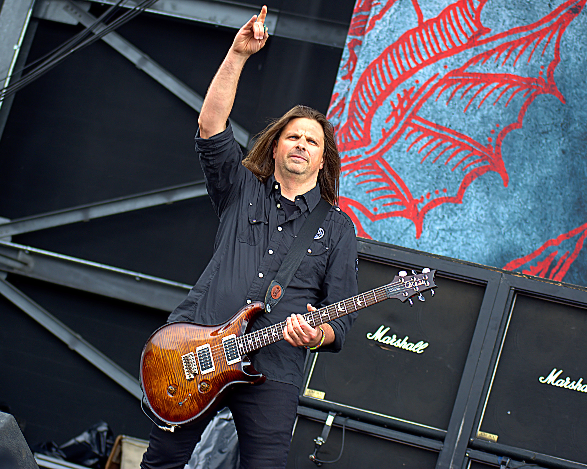 500px provided description: Saint Asonia is a rock supergroup, consisting of ex-Three Days Grace lead vocalist and guitarist Adam Gontier, Staind guitarist Mike Mushok, Eye Empire bass player Corey Lowery and former Finger Eleven drummer Rich Beddoe. [#concert ,#live ,#band ,#ohio ,#concert photography ,#columbus ohio ,#Franklin County ,#Rock on the Range ,#ROTR2015 ,#AXSROTR ,#Saint Asonia ,#csnphotograghy]